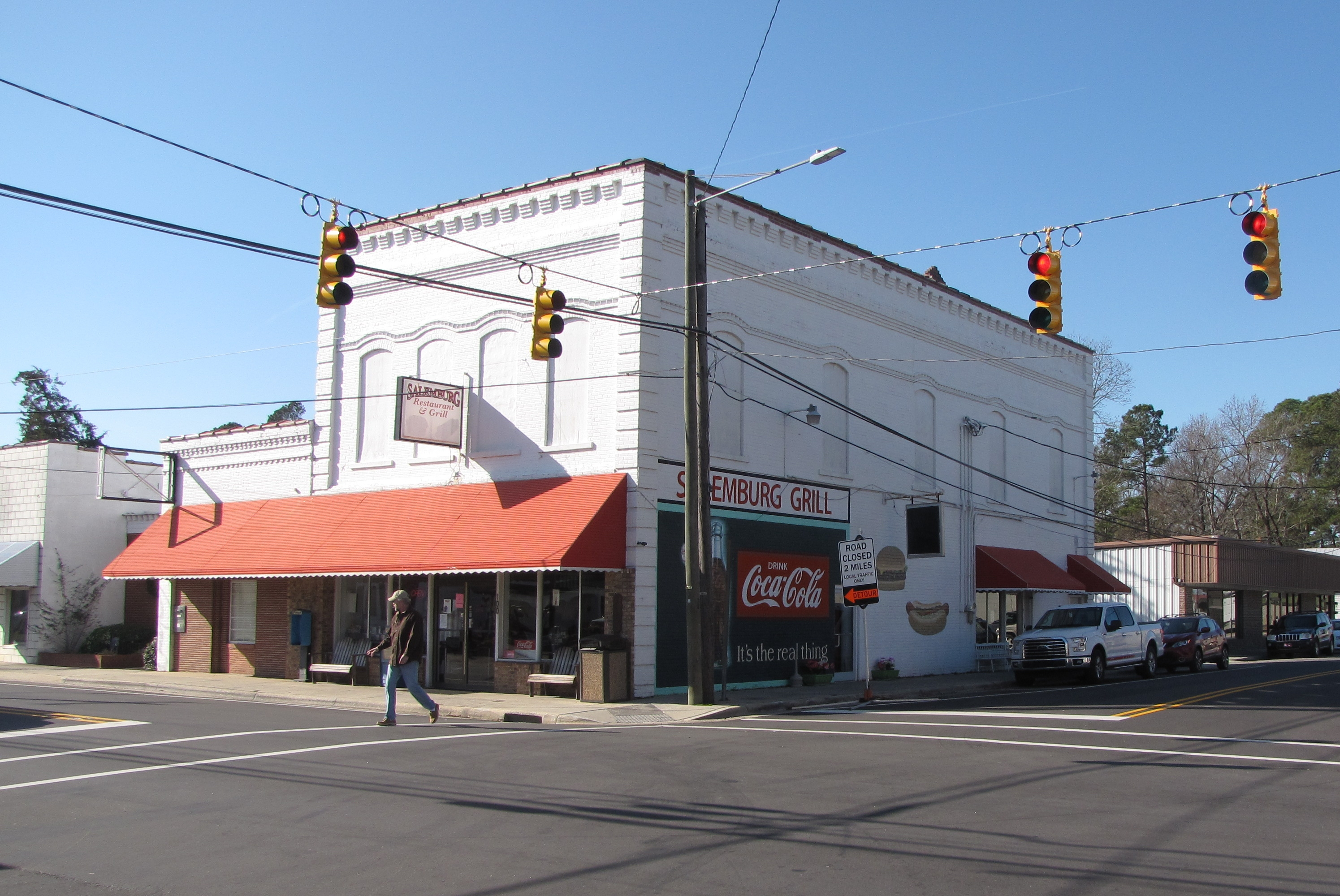 The Salemburg Grill is on Main Street, North Carolina Highway 242 in Salemburg, North Carolina in Sampson County.